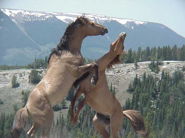 Feral stallions fighting for dominance of a herd of mares. Image taken at the Pryor Mountain Wild Horse Range in Montana in the United States.